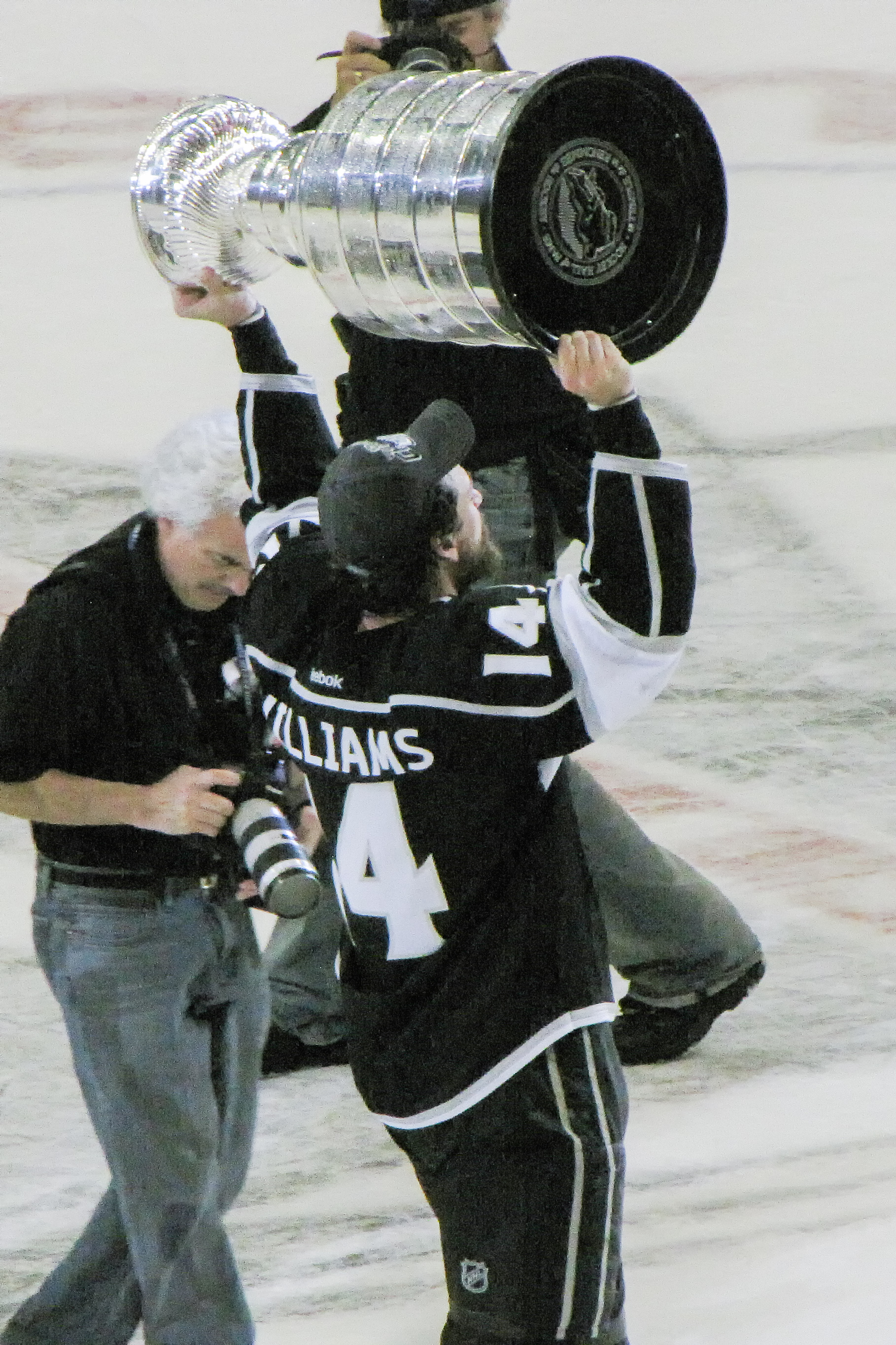 In April 2013 the Kings posted a nice video about receiving The Stanley Cup